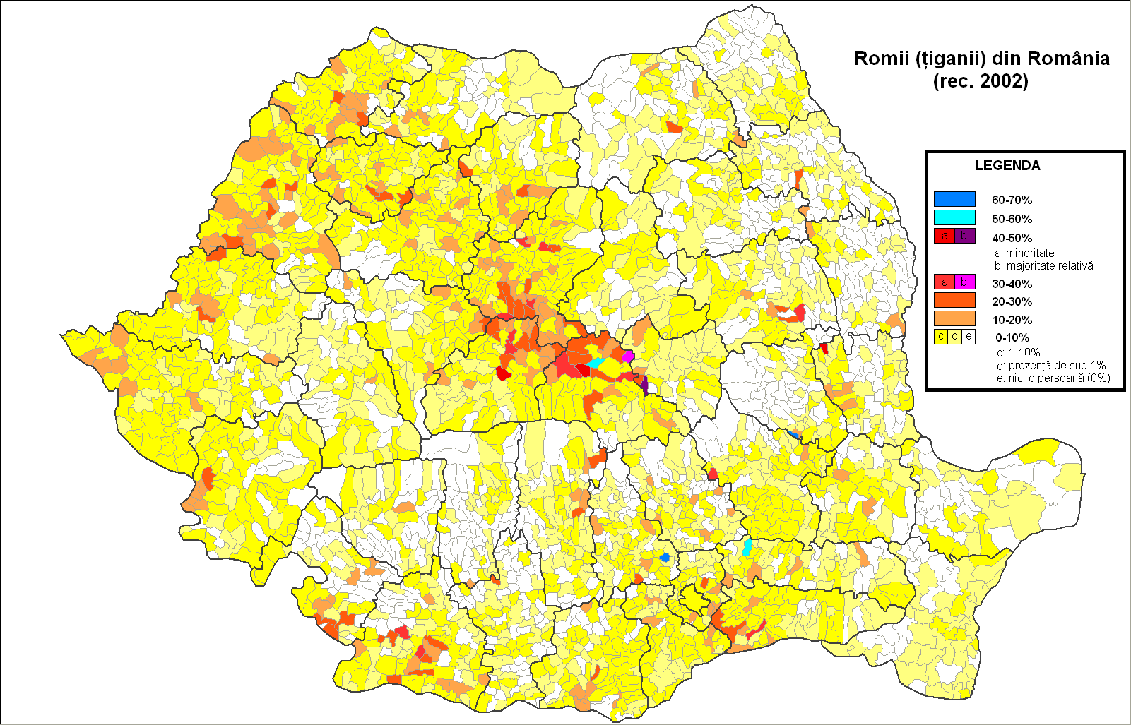 The distribution of the Roma minority in Romania (census 2002)